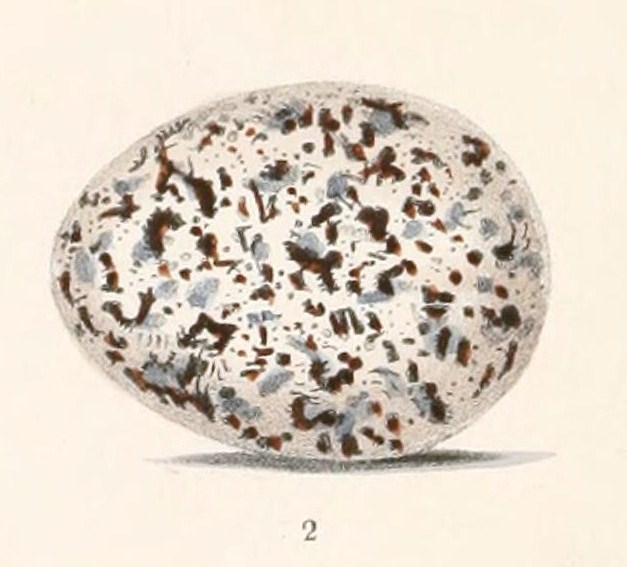 « Pitta strepitans » = Pitta versicolor (Noisy Pitta) - egg